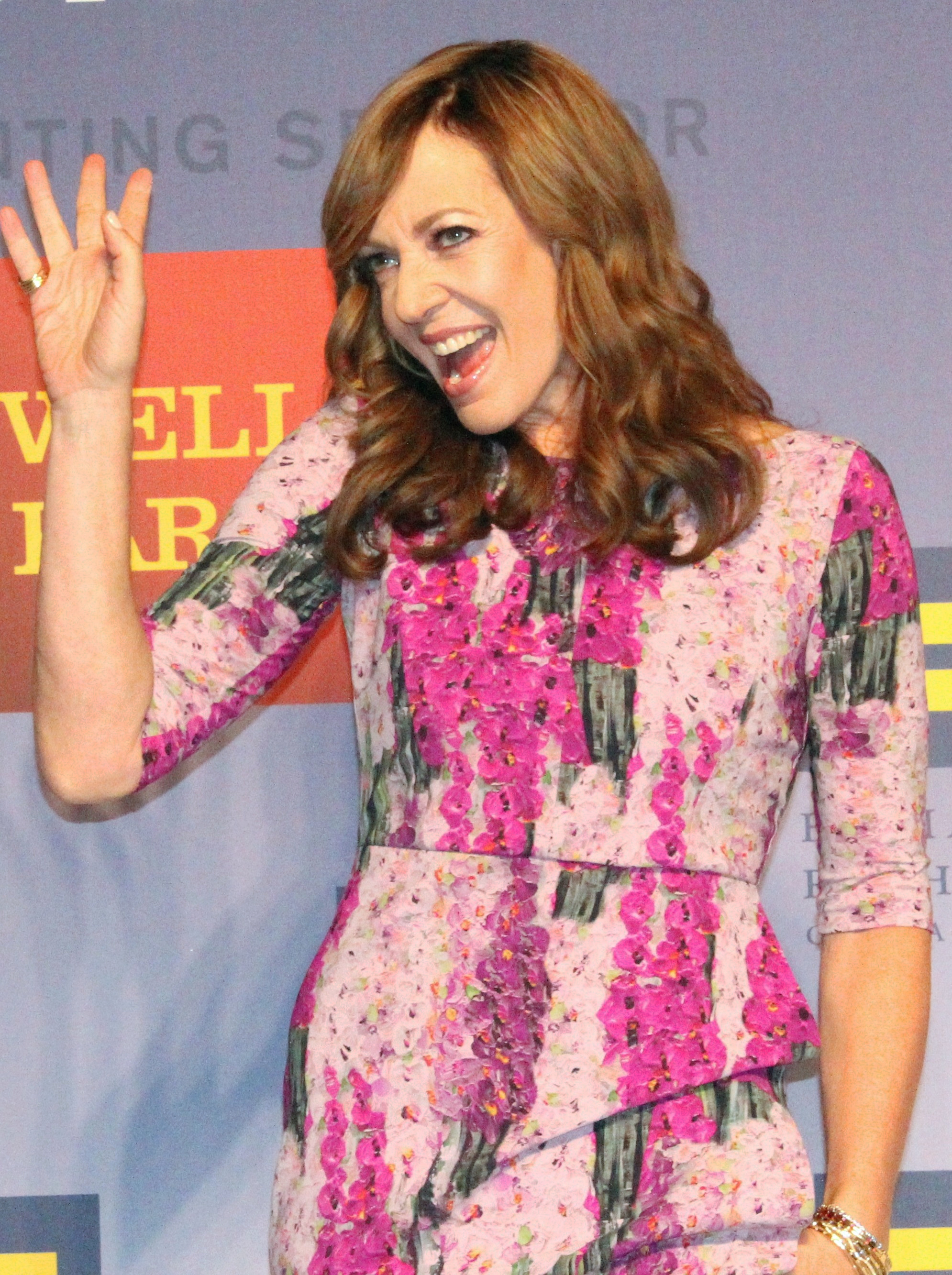 HRC Gala in Washington DC with Allison Janney